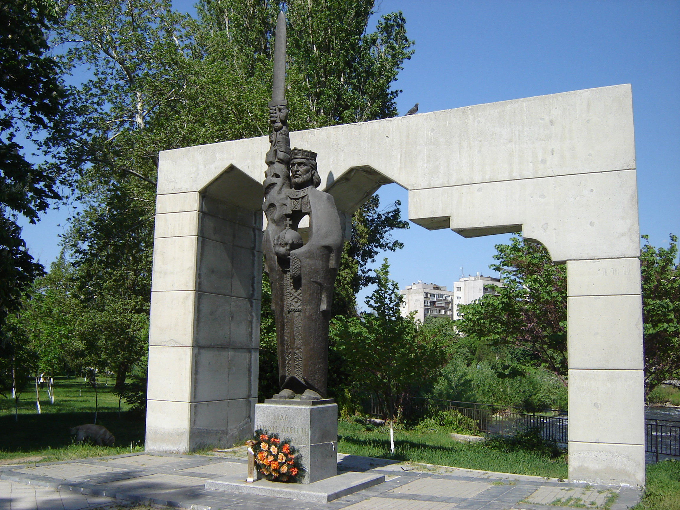 Monument to Ivan Asen II in Asenovgrad